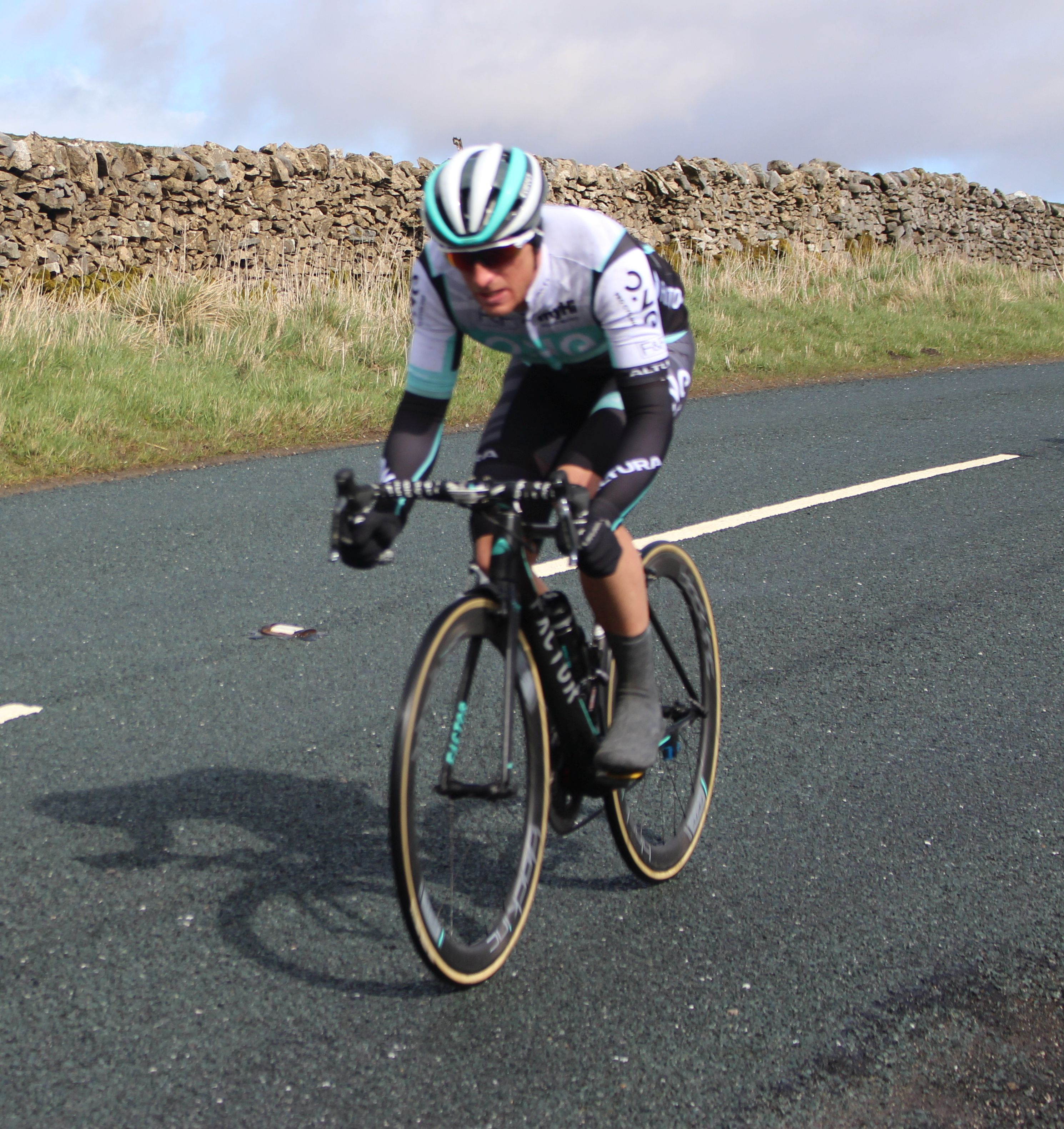 Peter Williams of One-Pro cycling leading stage 1 of the w:2016 Tour de Yorkshire shortly after winning the only classified climb of the stage.